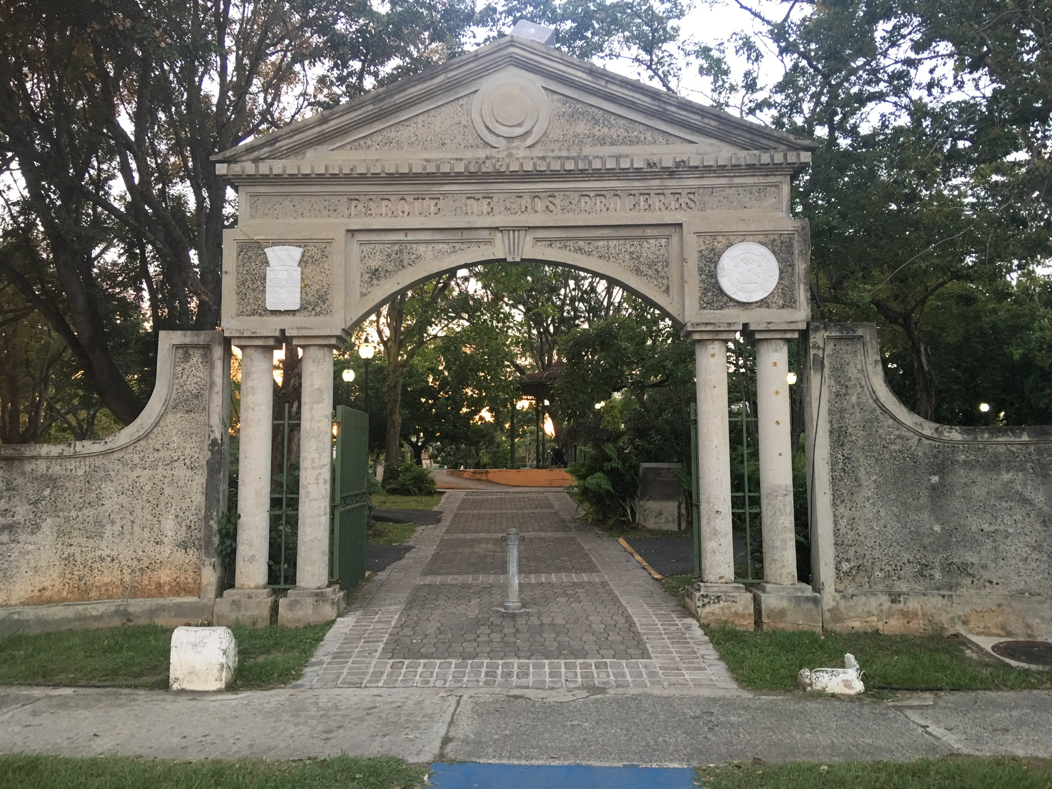 Entrance to the Park of National Heroes in Mayagüez, Puerto Rico Аҧсшәа: Entrada principal para el Parque de los Próceres en Mayagüez, Puerto Rico